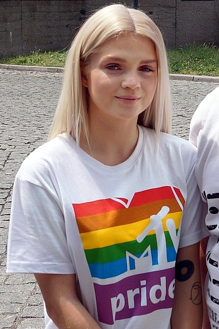 Polish singer-songwriter Margaret wearing the MTV Pride t-shirt (2018)